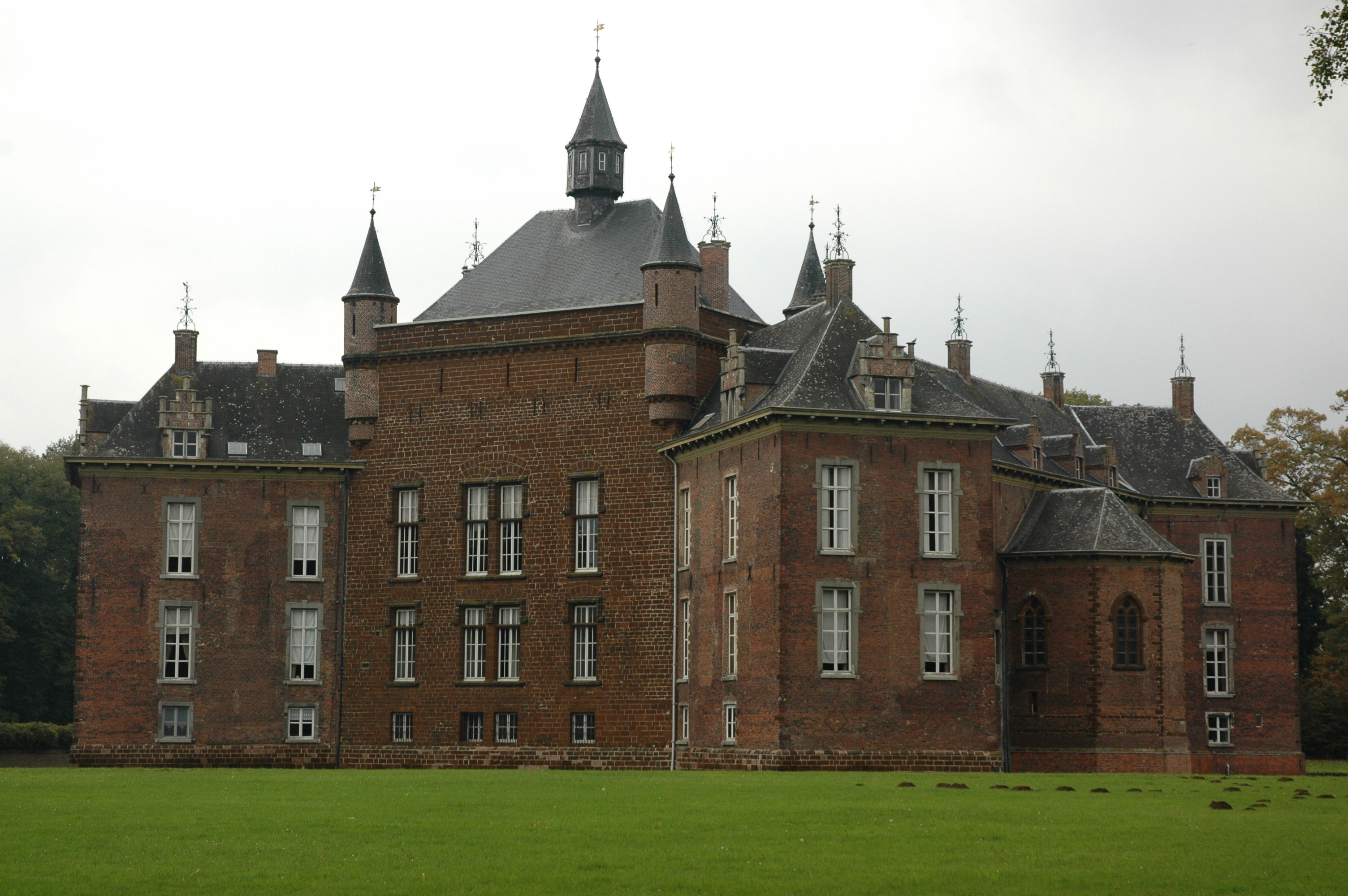 Castle 'de Mérode' in Westerlo, Belgium, seen from the south